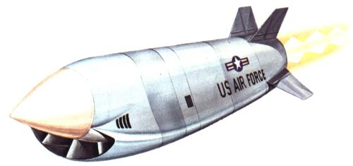 Martin Marietta Advanced Strategic Air-Launched Missile concept.